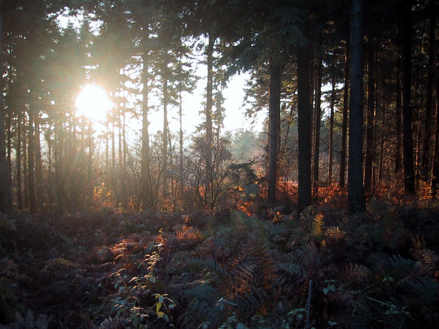 Sunset in Athelstans Wood